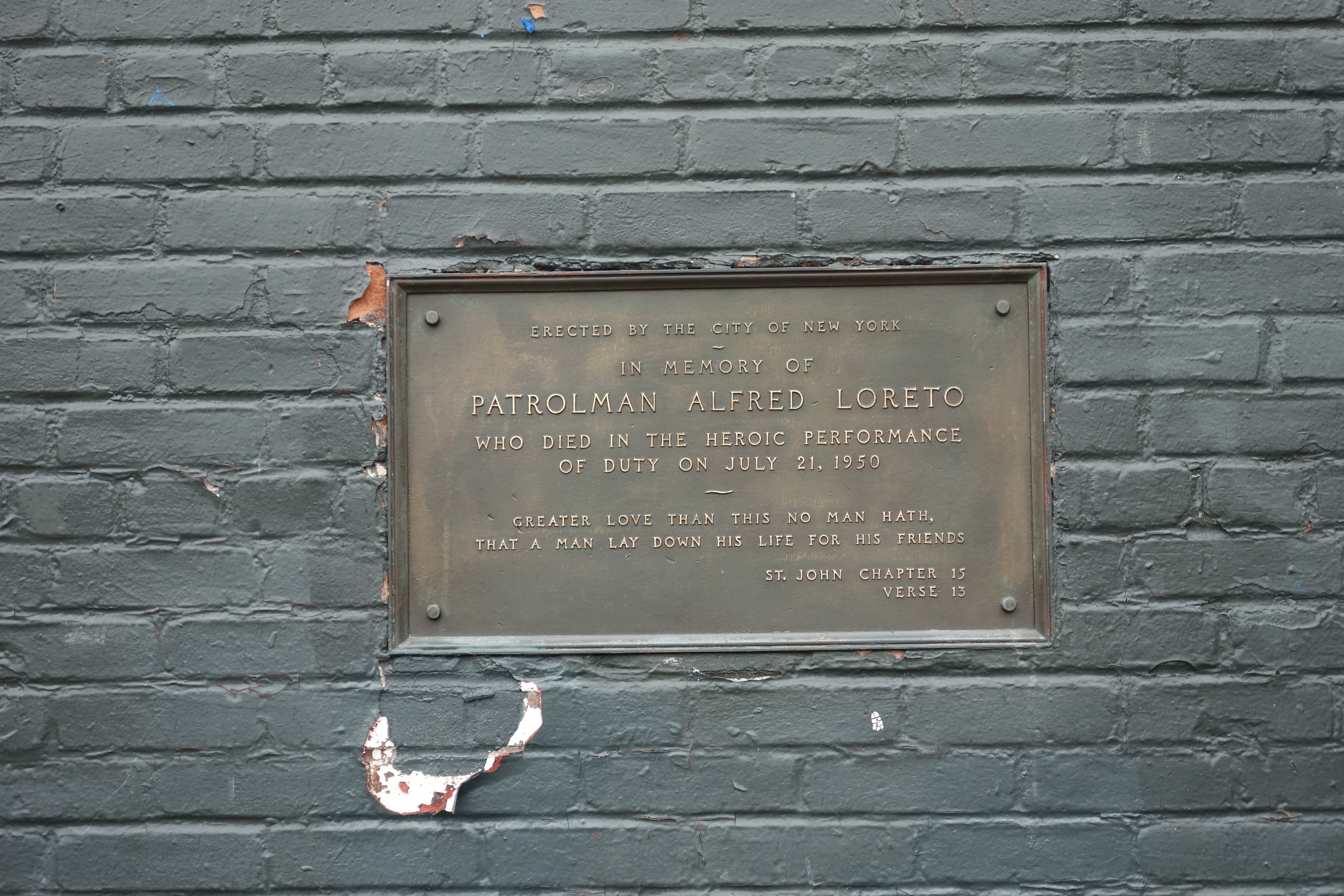 One of the two plaques on the comfort station in the center of the playground section in the southern half of Loreto Playground, on Van Nest Avenue between Tomlinson Avenue and Haight Avenue in Morris Park, Bronx. The plaque honors the park's namesake Officer Alfred Loreto, a local resident who died stopping a kidnapping attempt on a neighbor in 1950.